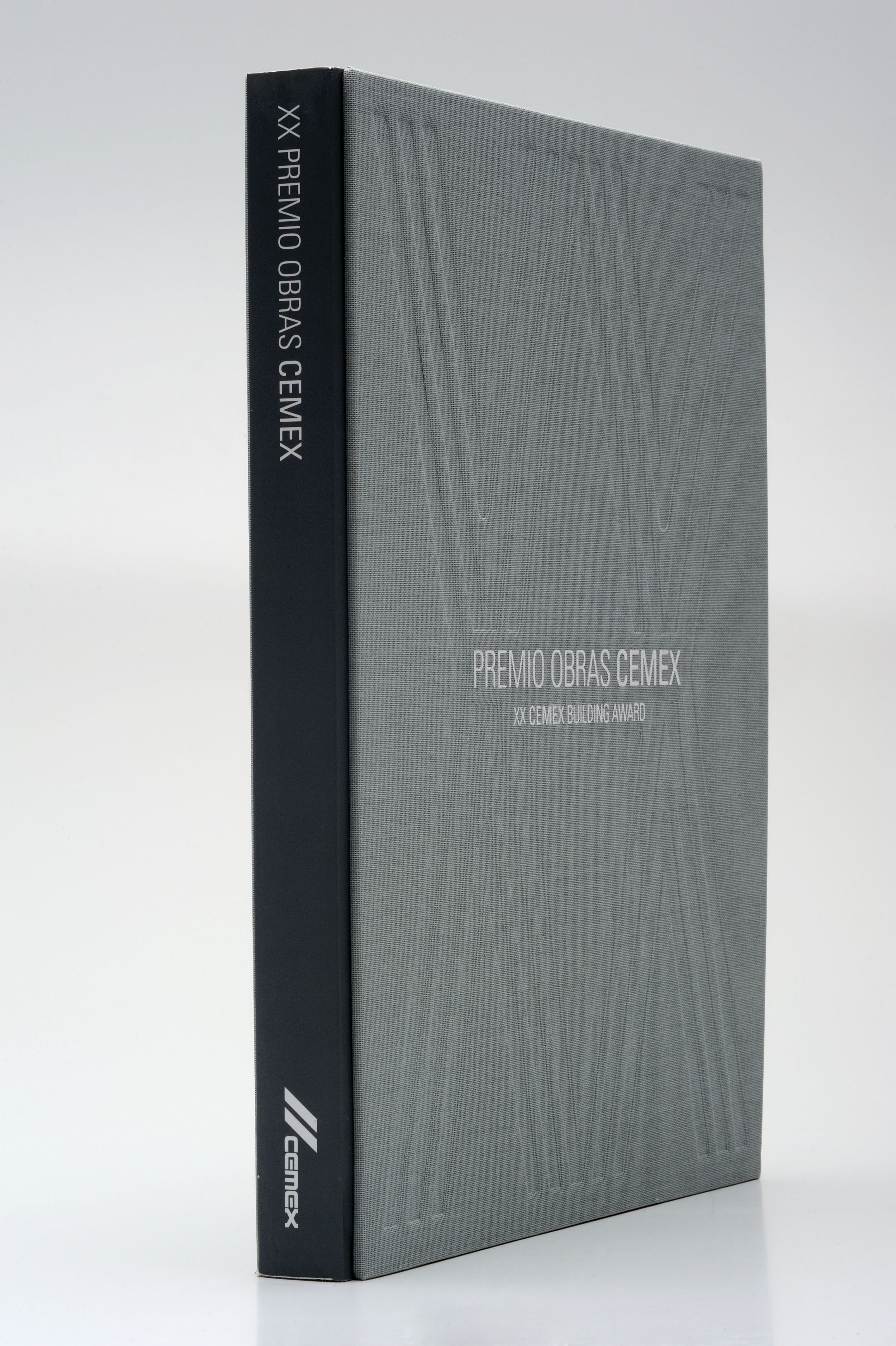 XXI CEMEX BUILDING AWARD BOOK